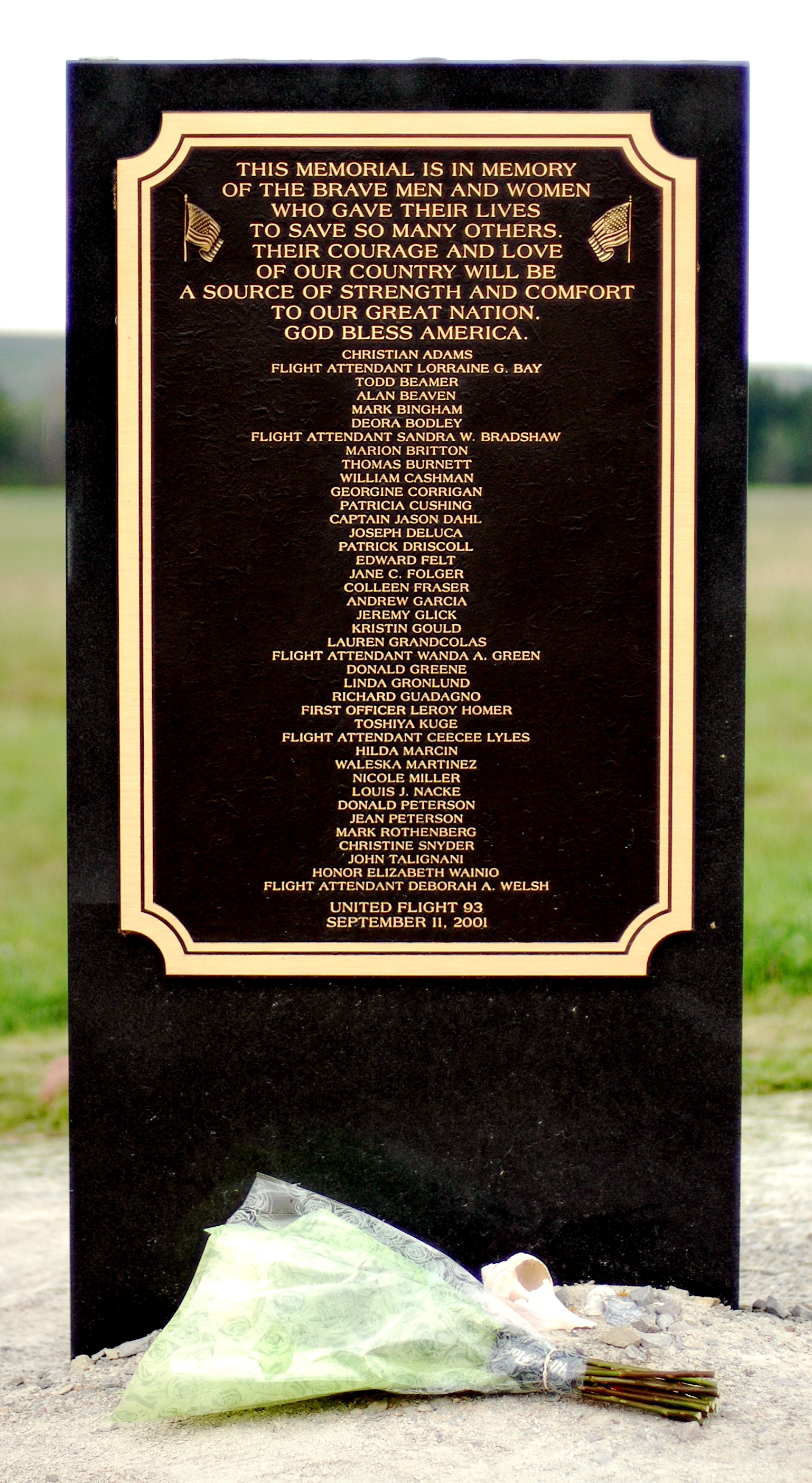 Flight 93 Memorial